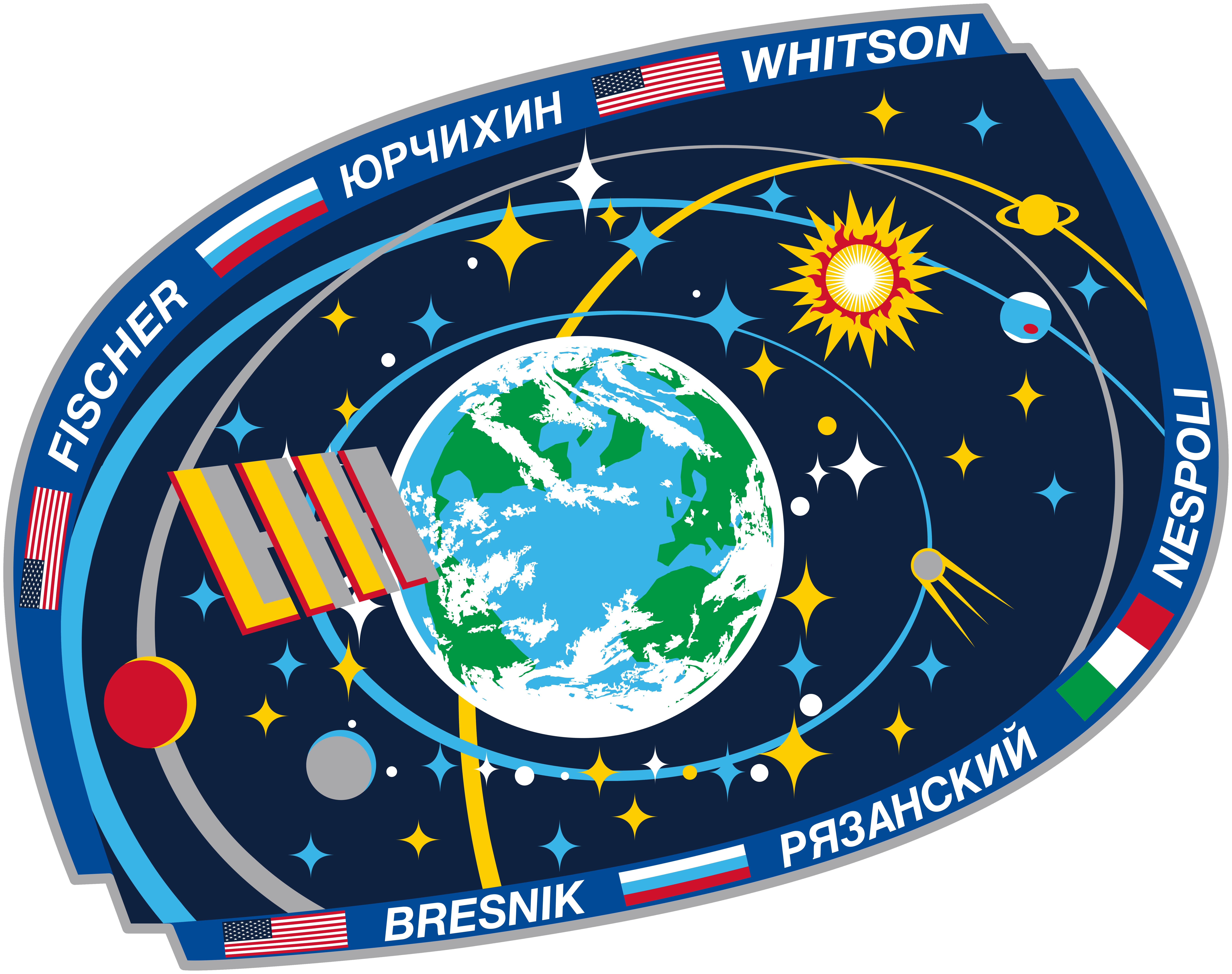 The Expedition 52 crew insignia